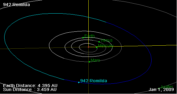 942 Romilda orbit, and his position on 01 Jan 2009 (NASA Orbit Viewer applet)